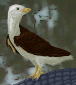 Cropped image of taxon in file name